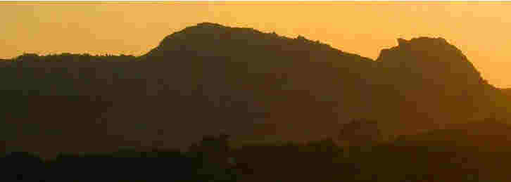 Shahapur